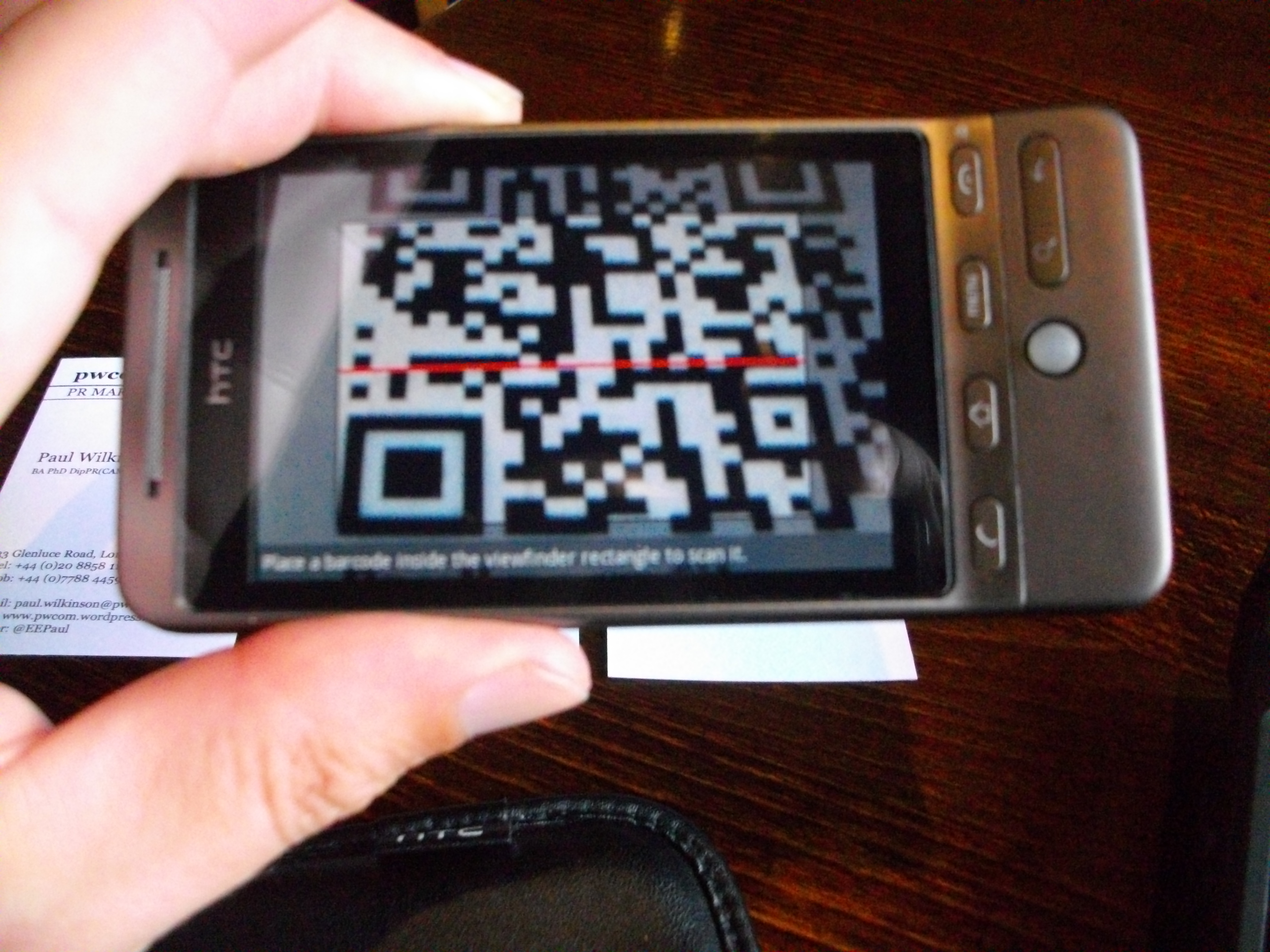 Business cards, two versions, with QR (quick response) codes printed on the reverse, scanned using Barcode Scanner app on HTC Hero